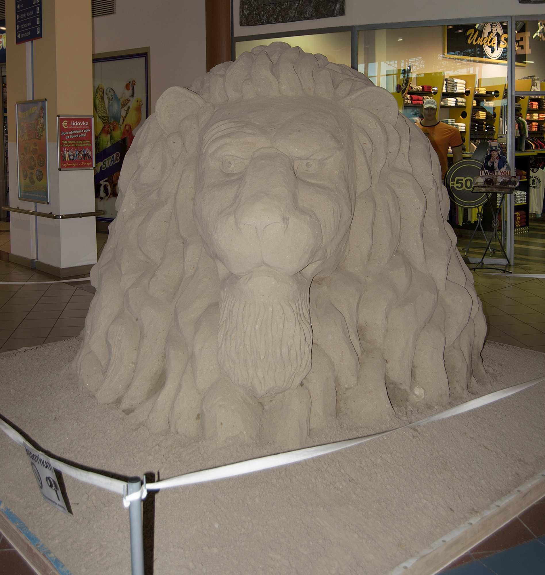 Sand sculpting exhibition in Obchodní centrum Futurum Brno